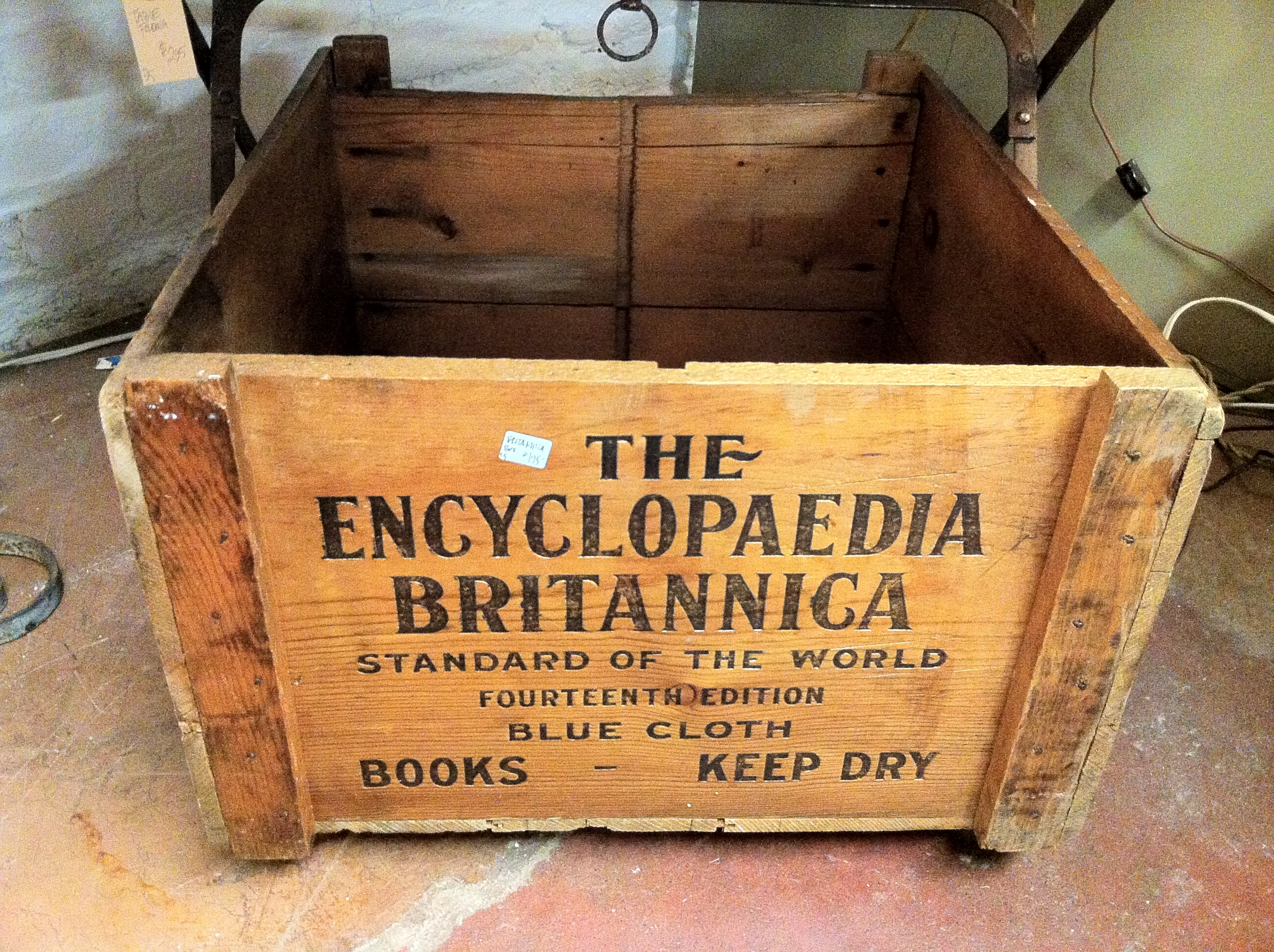 Shipping box for the encyclopedia Britannica